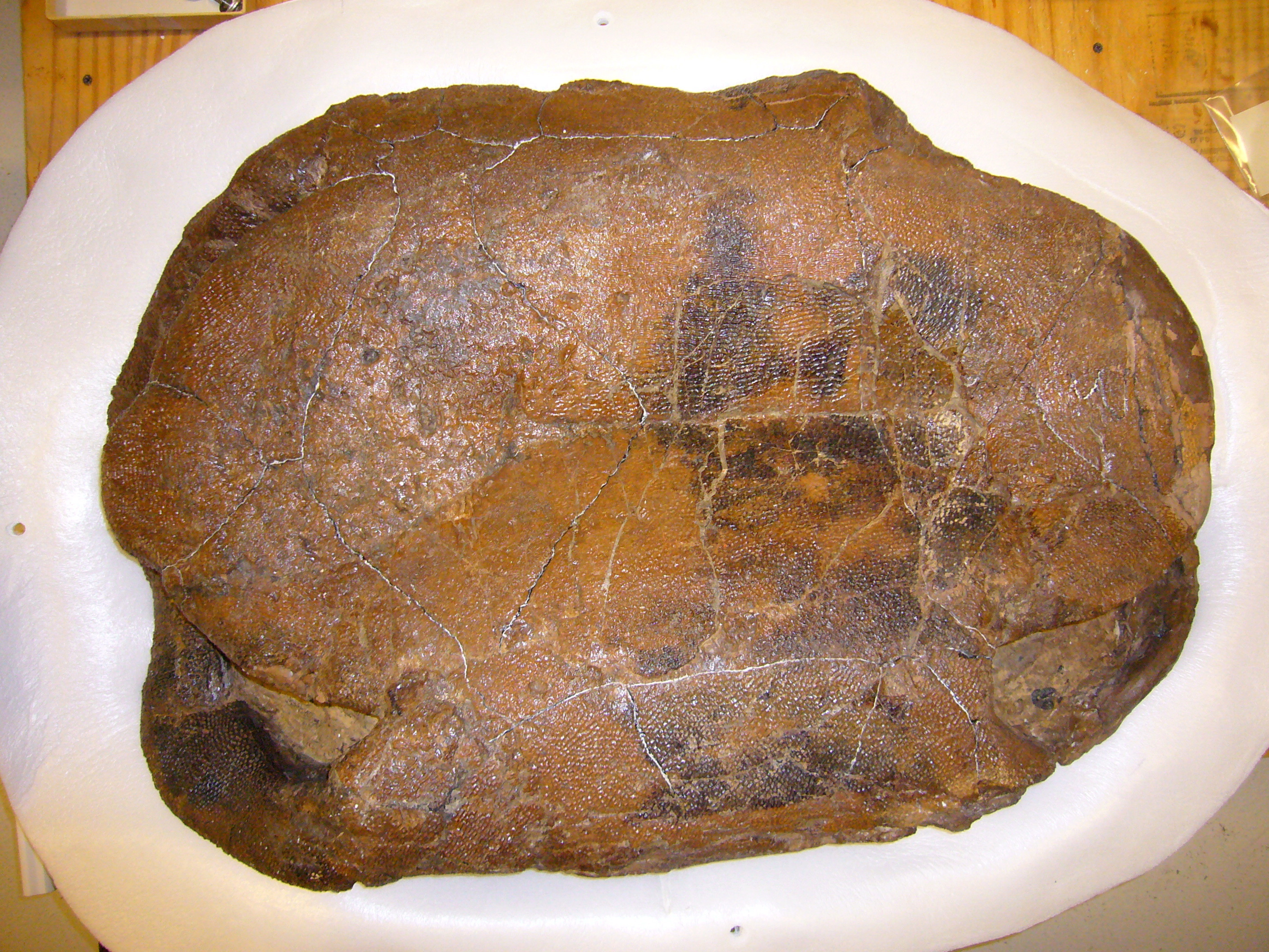 Collector: Charles H. Sternberg Carapace and Plastron of Basilemys gaffneyi (Sullivan, 2011) Fossil in the Smithsonian Institution